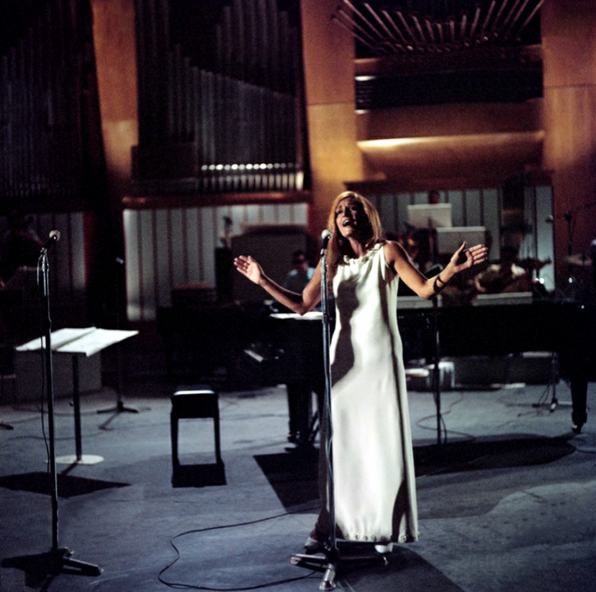 Dalida during concert rehearsals at the Oasi in Fregene, Italy.